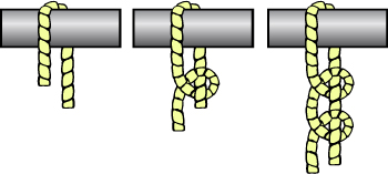 Illustration of tying two half-hitches.